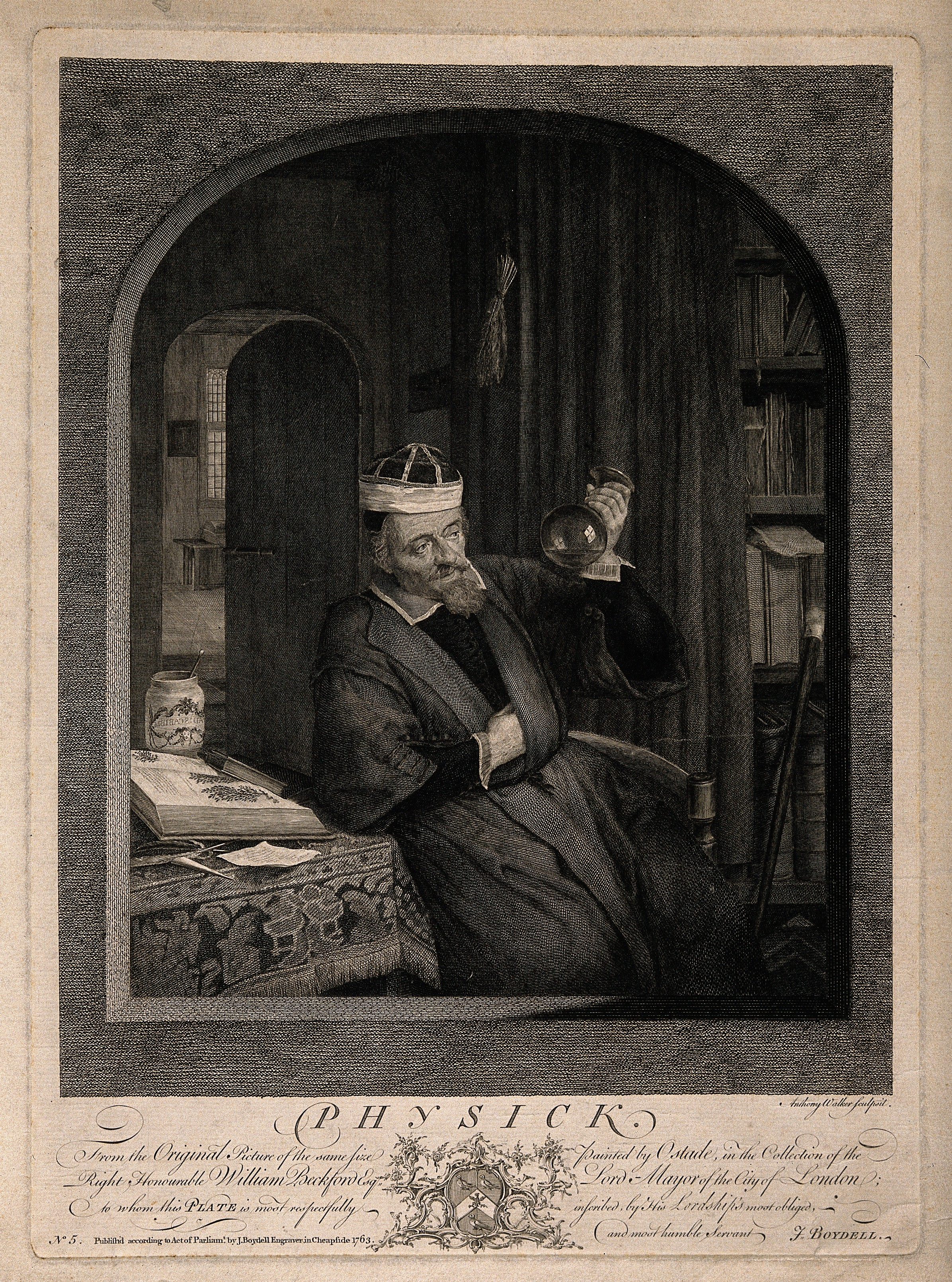 A physician examining a urine specimen in his surgery. Engraving by A. Walker, 1763, after A. van Ostade. Iconographic Collections Keywords: Anthony Walker; Adriaen van Ostade; William Beckford